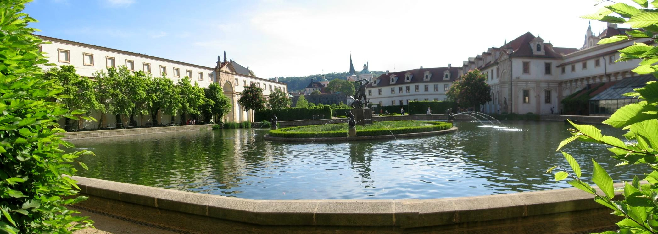 Panoramatic wiew of the Wallenstein Garden in Prague, The Czech Republic